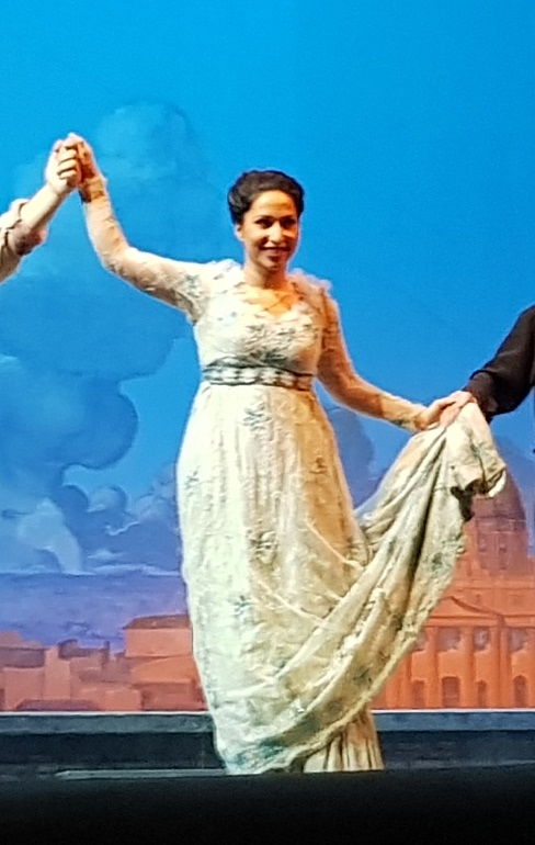 Svetlana Kasyan